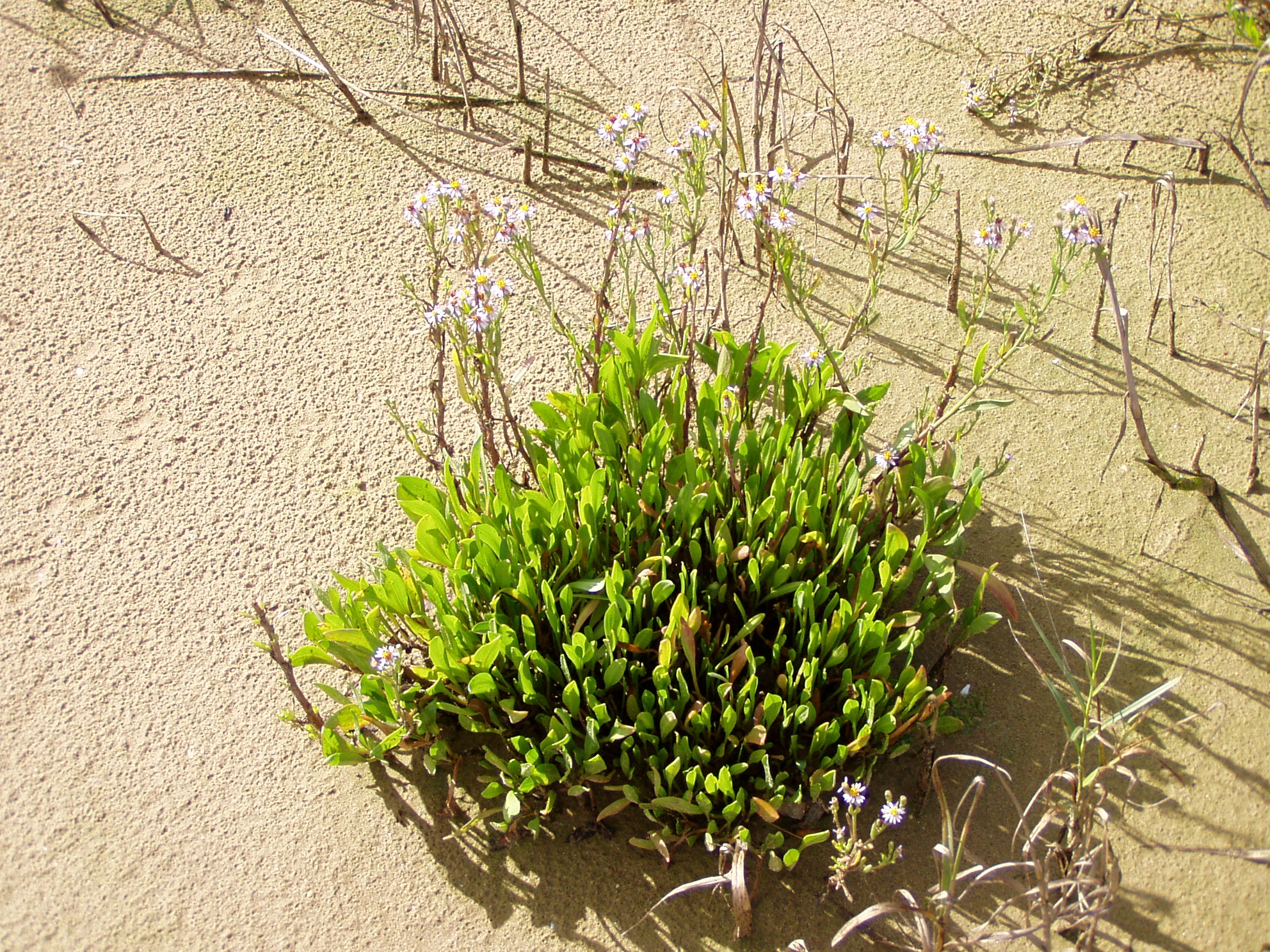 Limonium angustifolium. Tagus River estuary, Alcochete, Portugal.